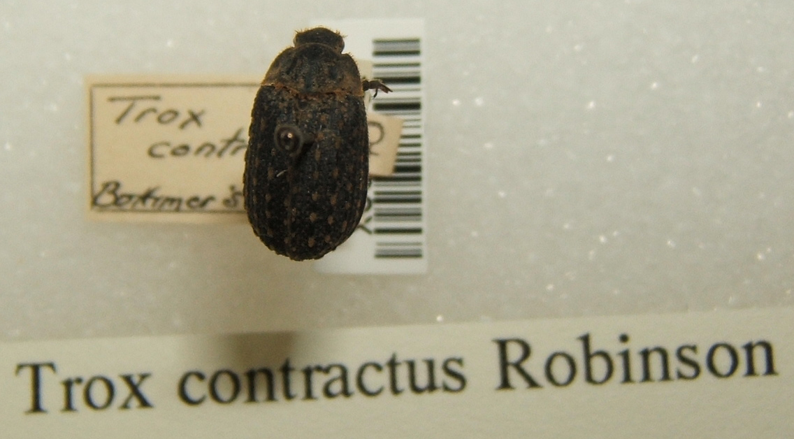 Trox contractus adult taken by Shawn Hanrahan at the Texas A&M University Insect Collection in College Station, Texas. Cropped version: Trox contractus sjh.cropped.jpg